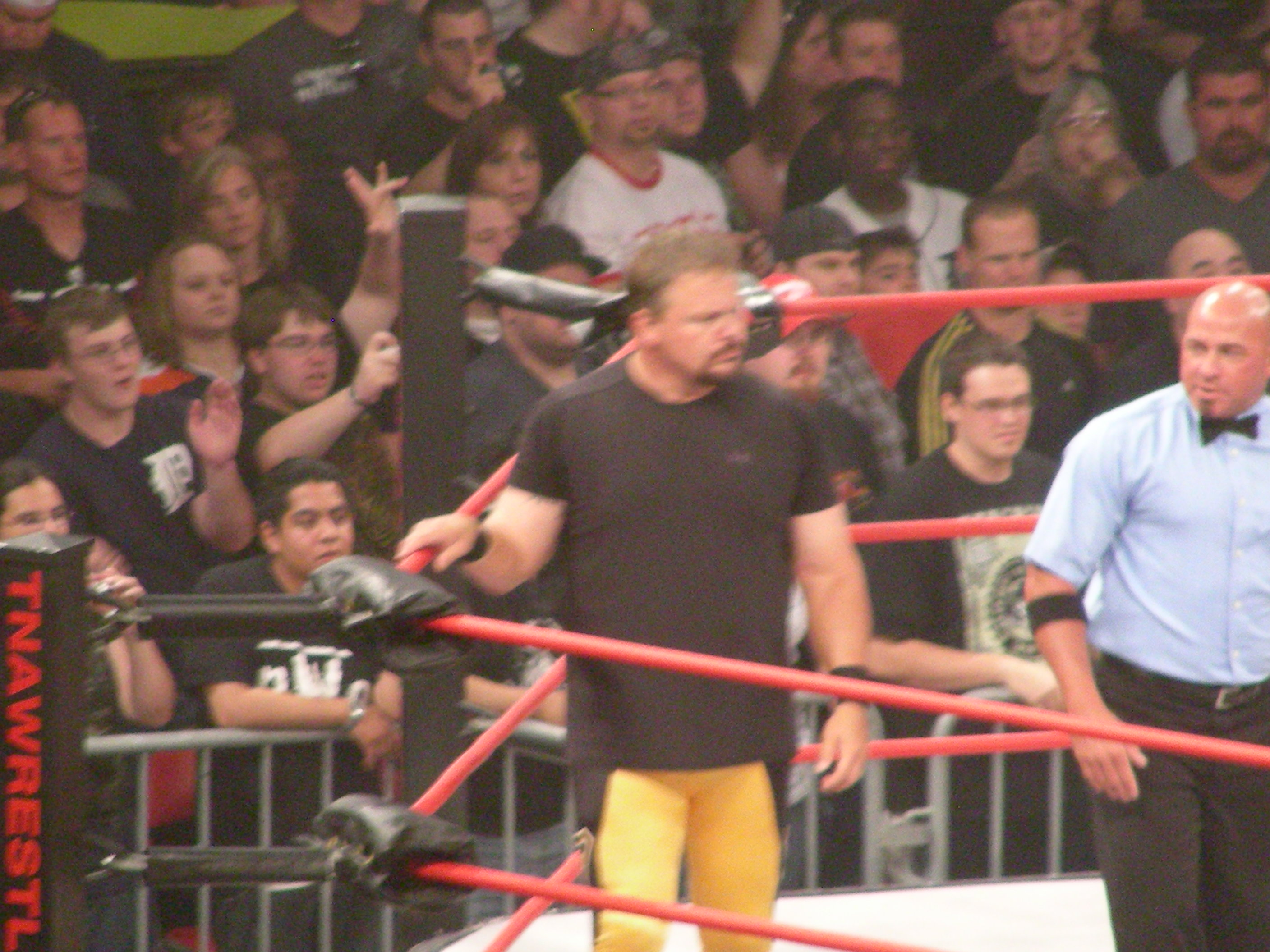 "The Franchise" Shane Douglas waiting for his opponent Daniels.